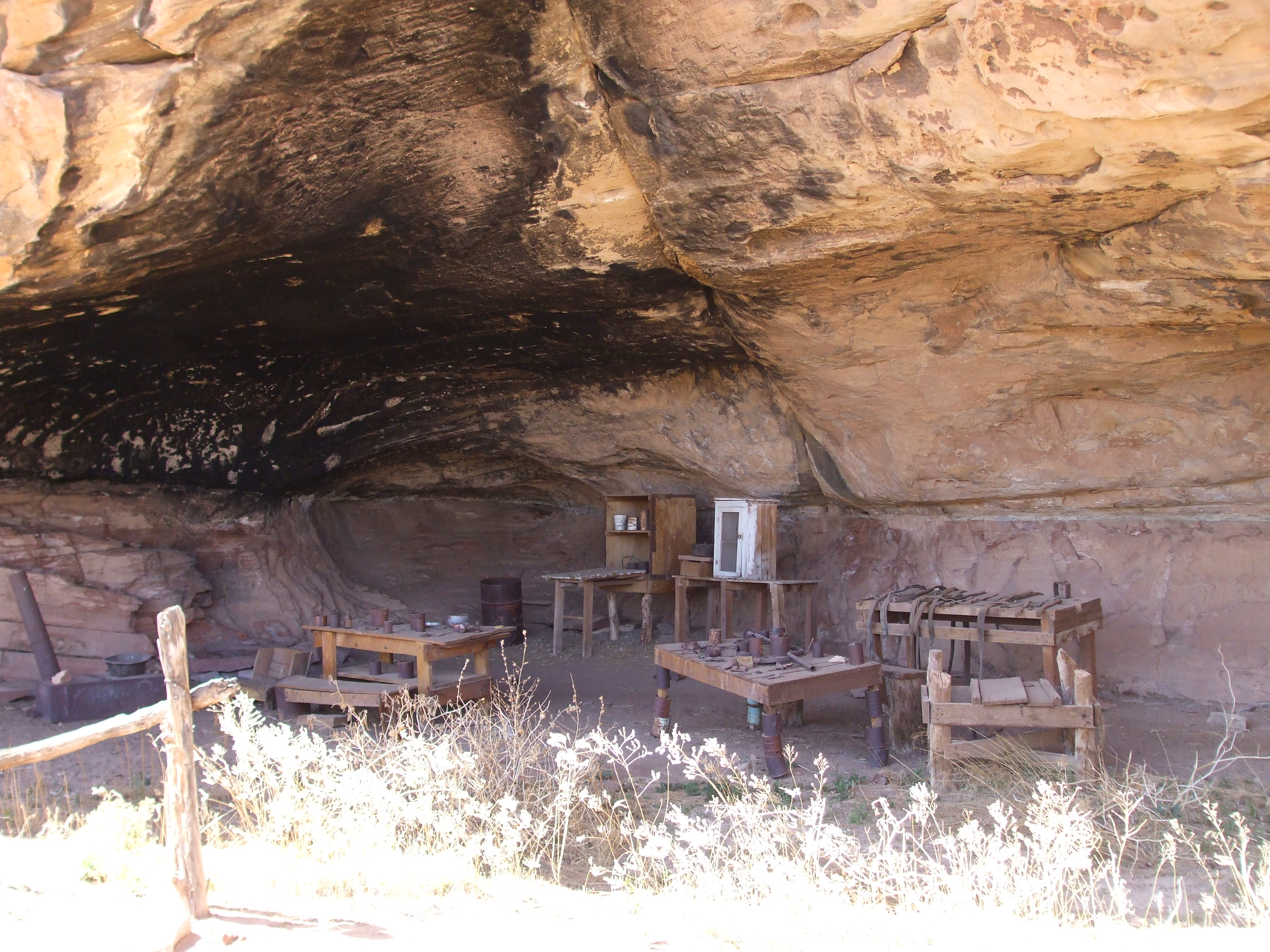 Cave Springs Cowboy Camp, a historic site in Canyonlands National Park, Utah, United States.